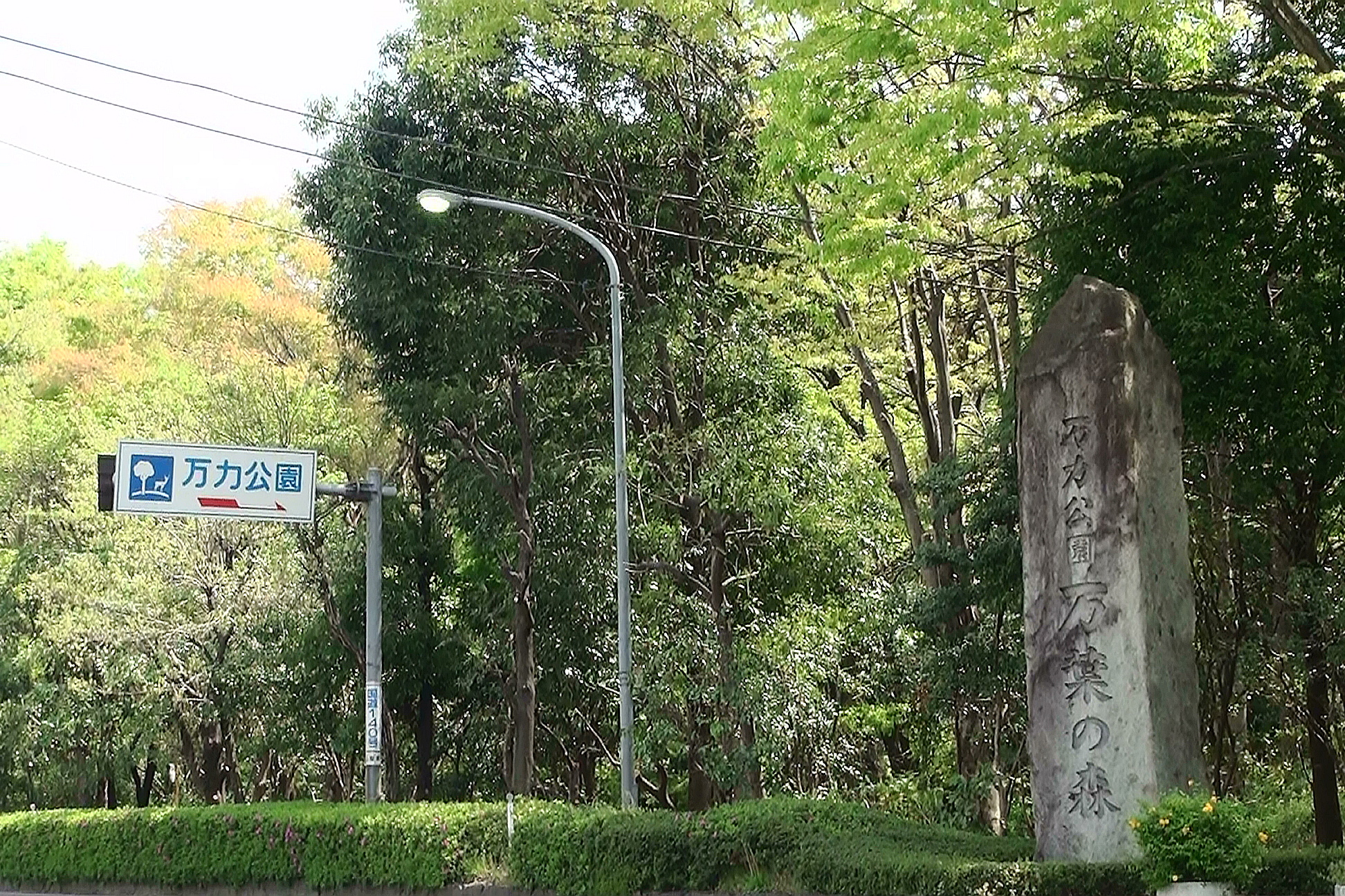 The signboard of Manriki-Park Yamanashi-city